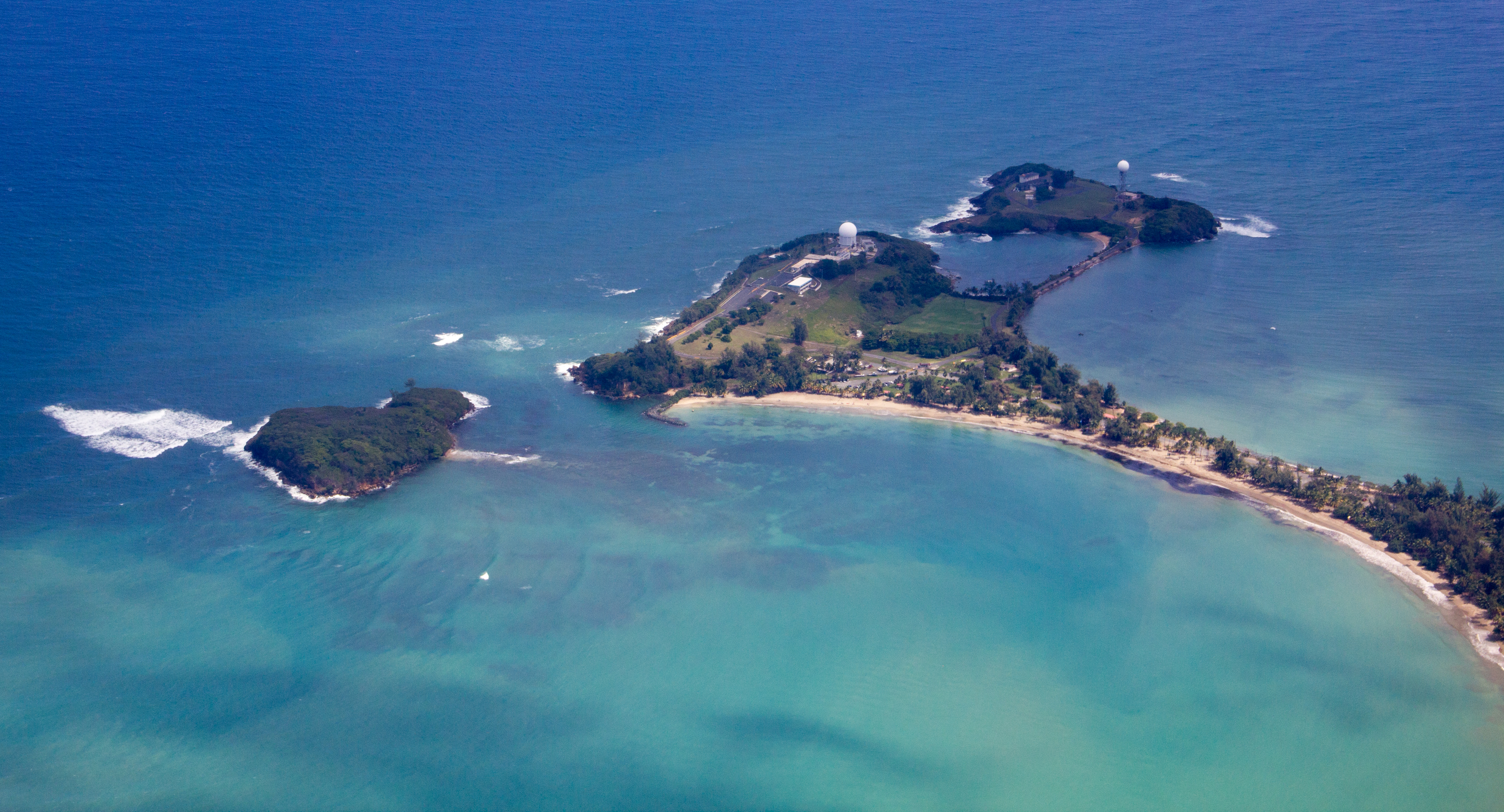 On the north coast of Puerto Rico is Isla de las Palomas, Punta Salinas Beach, and Punta Salinas Radar Station. Taken on approach to SJU.